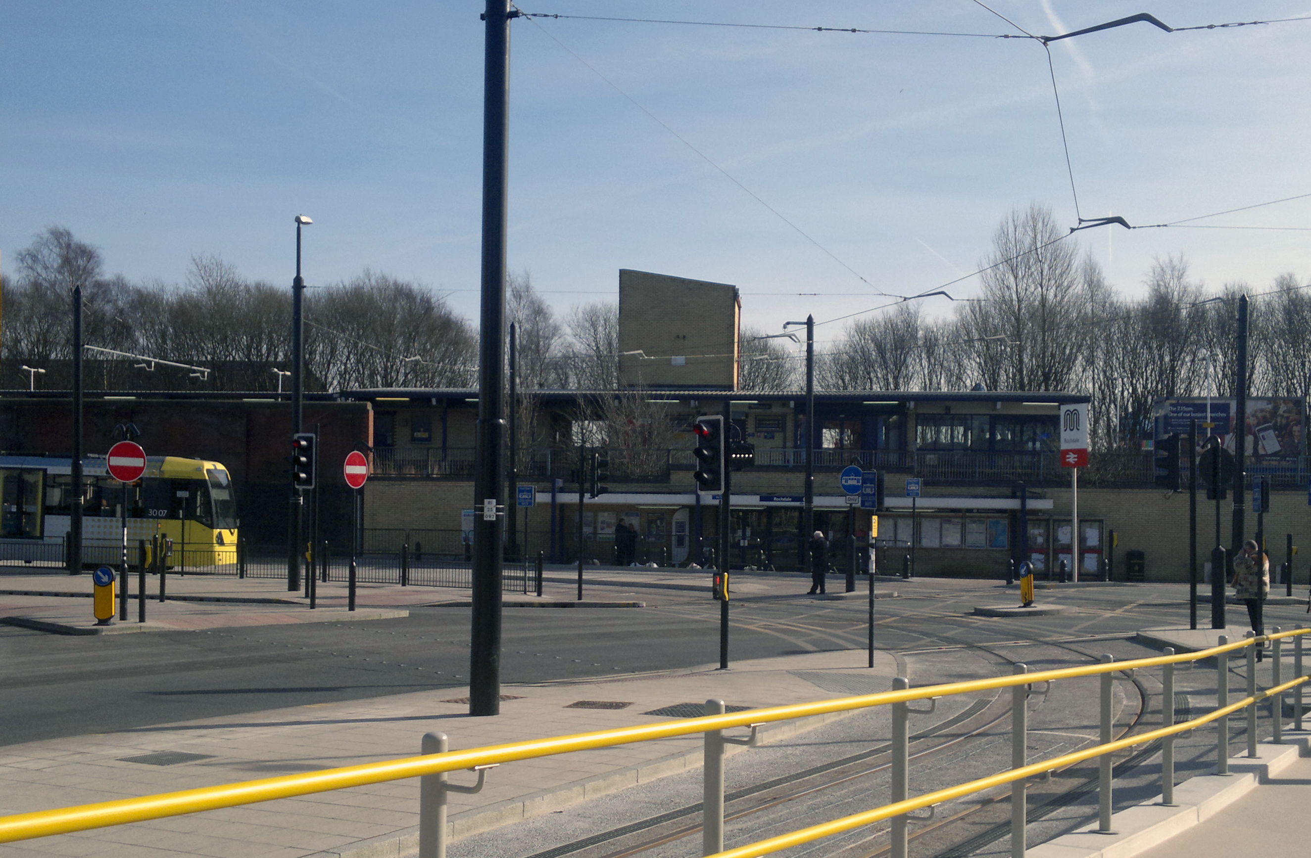 The front entrance of Rochdale railway station, in southern Rochdale, Greater Manchester, England. A M5000 tram appears here on the right on the day in which Metrolink passenger services first began operating to the station.